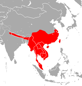 Great Roundleaf Bat (Hipposideros armiger) range